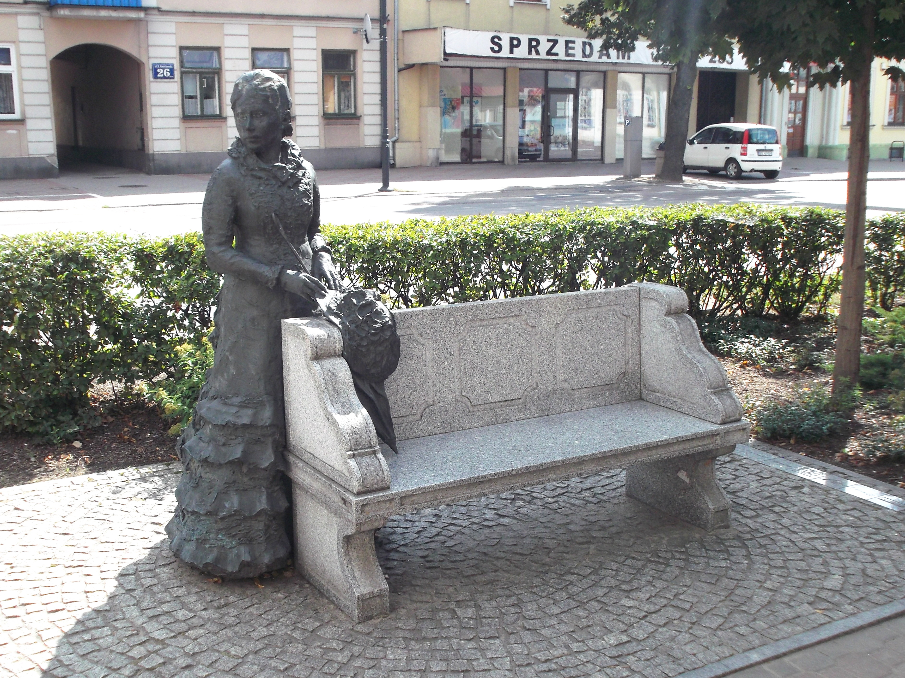 Maria Konopnicka monument in Suwałki (Poland) at Kościuszki Street near Maria Konopnicka Museum.